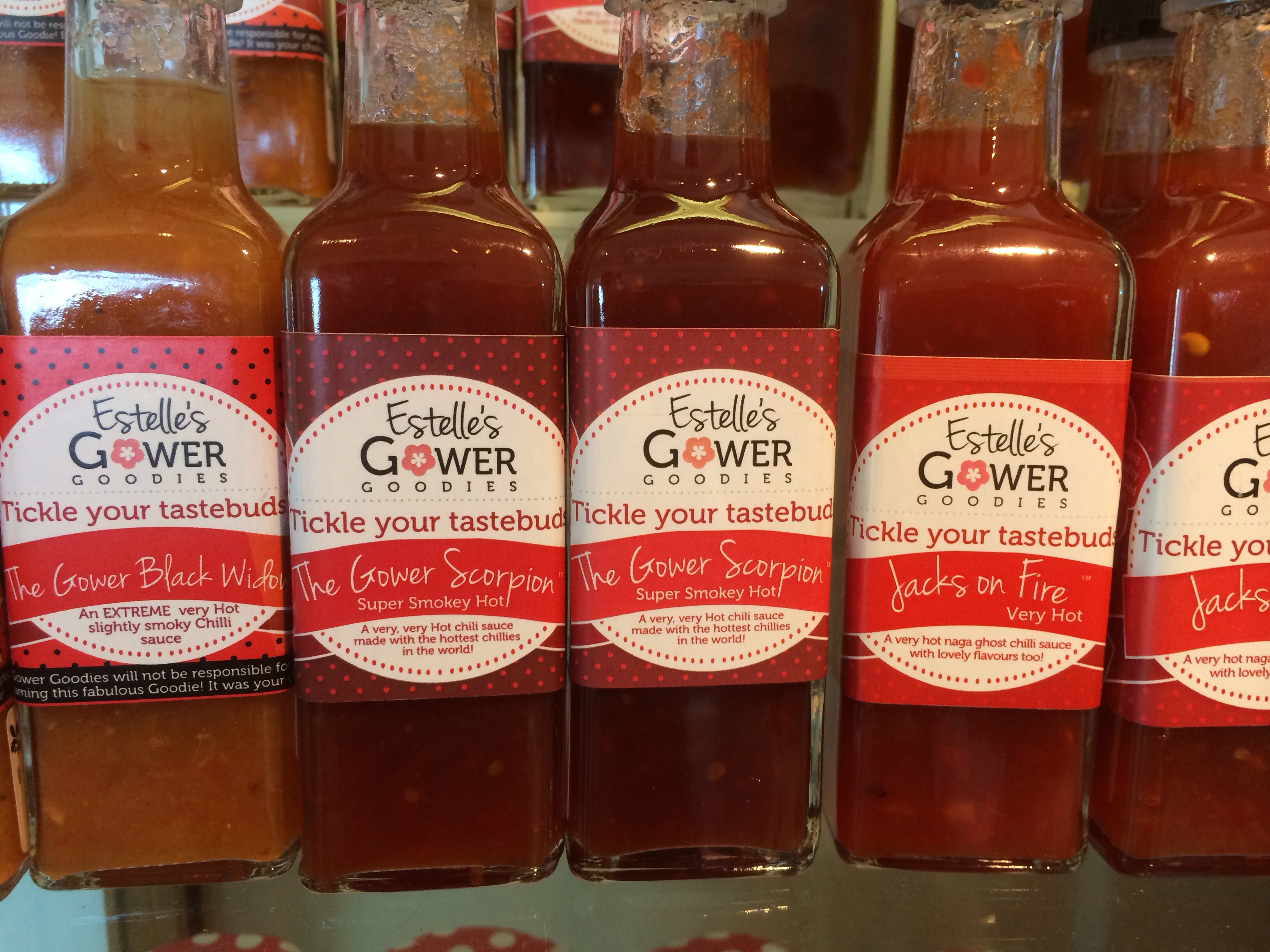 Bottles of chilli sauce produced by Estelle's Gower Goodies on sale in a shop in Gower